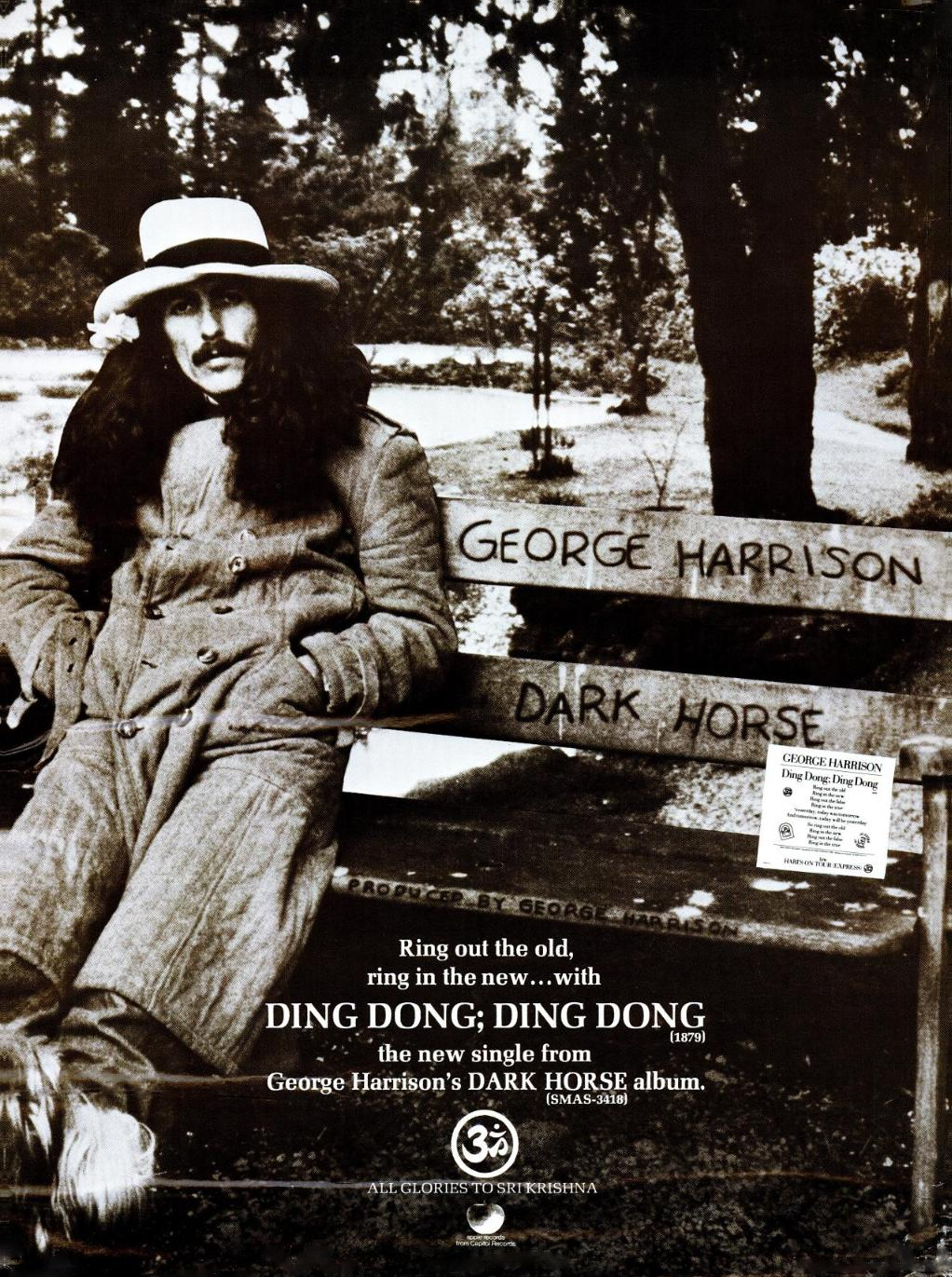 Trade ad for George Harrison's single "Ding Dong".